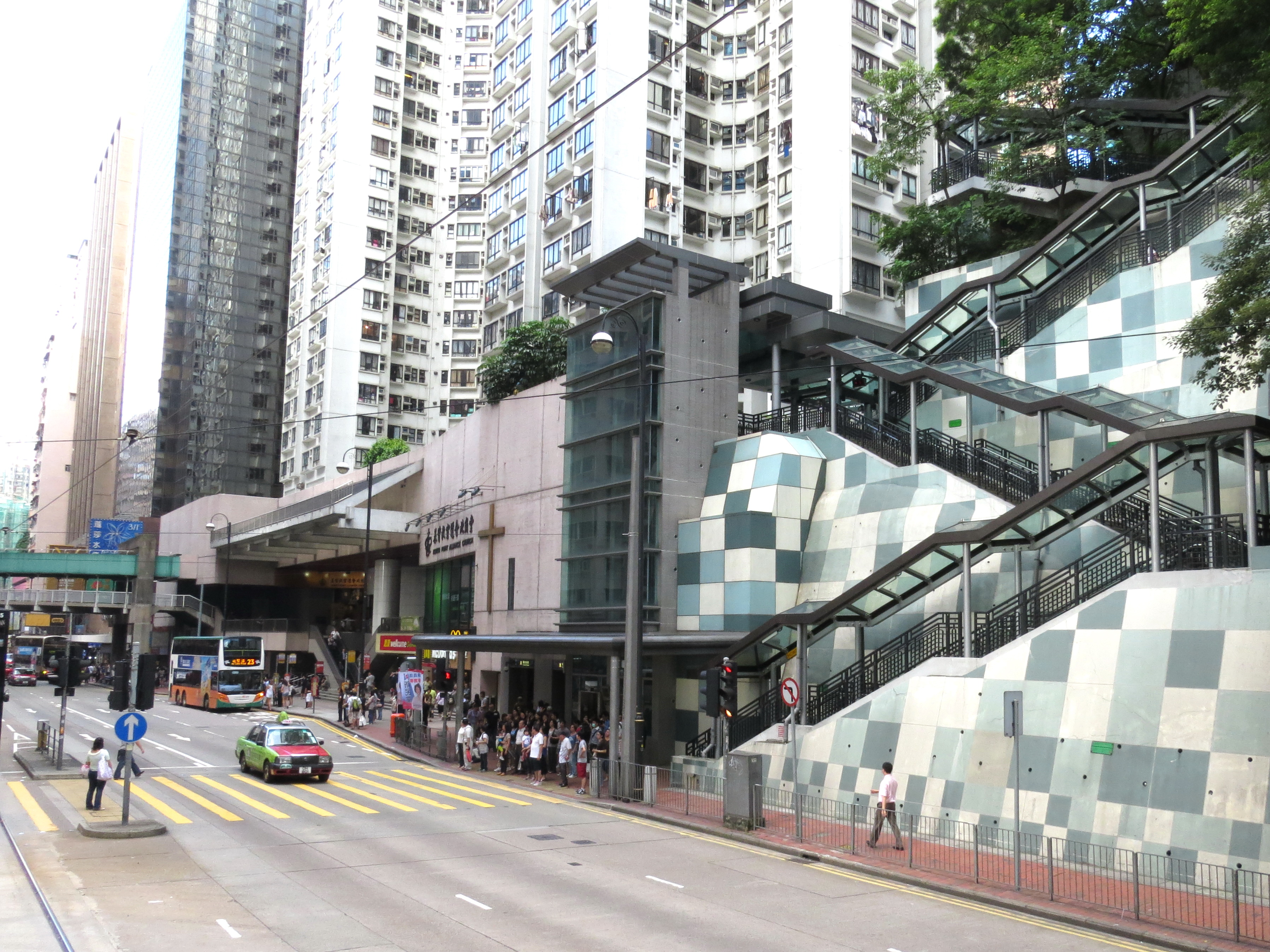 King's Road near Fortress Hill Station, Hong Kong.